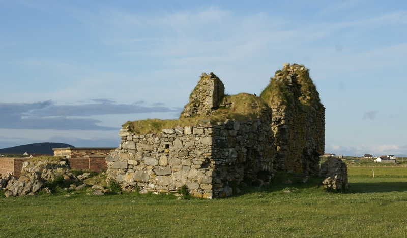 Borve Castle, Benbecula, Outer Hebrides, Scotland - from south west